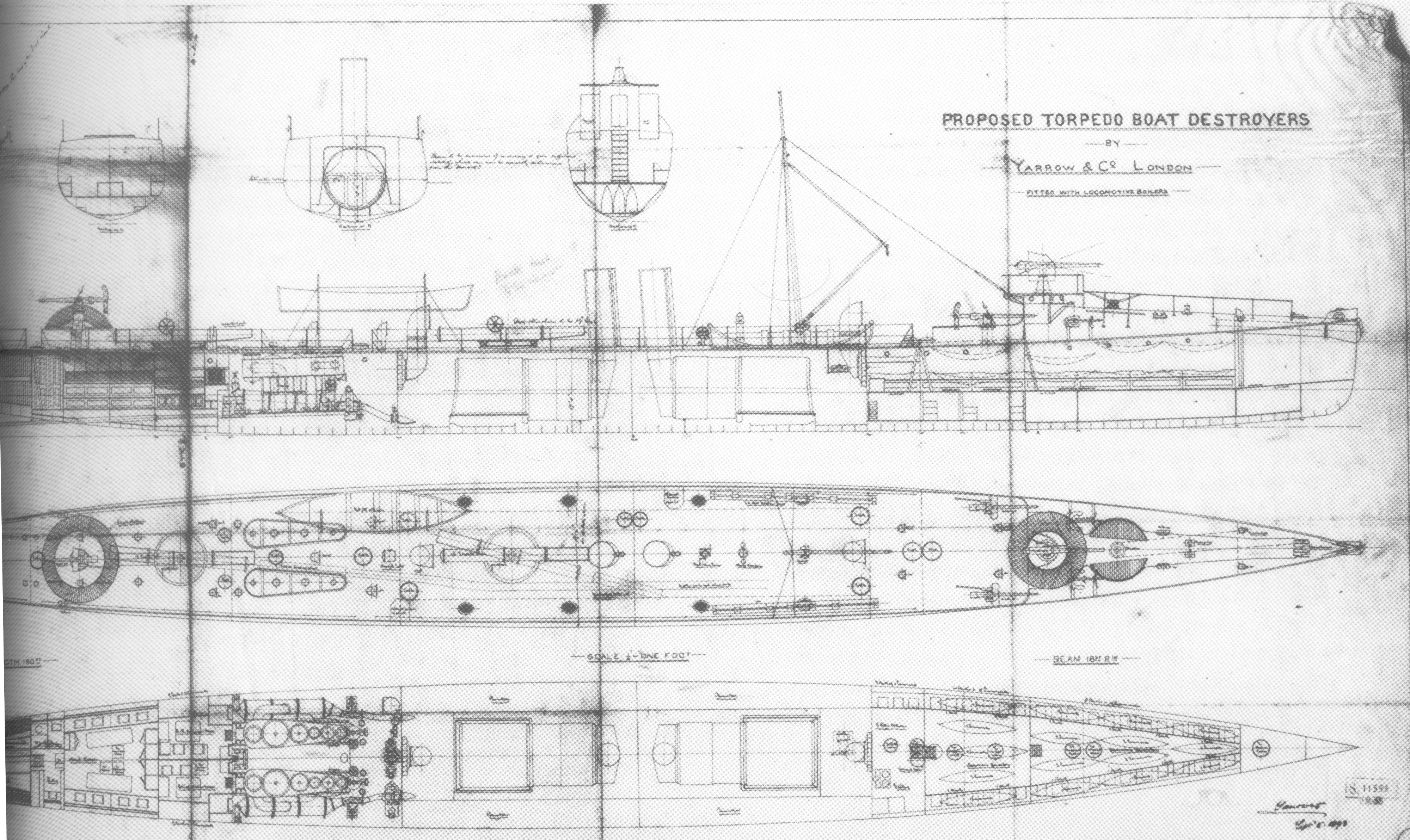 Ship plans produced by Yarrow shipbuilders for torpedo boat destroyers which became HMS Charger, Dasher and Hasty